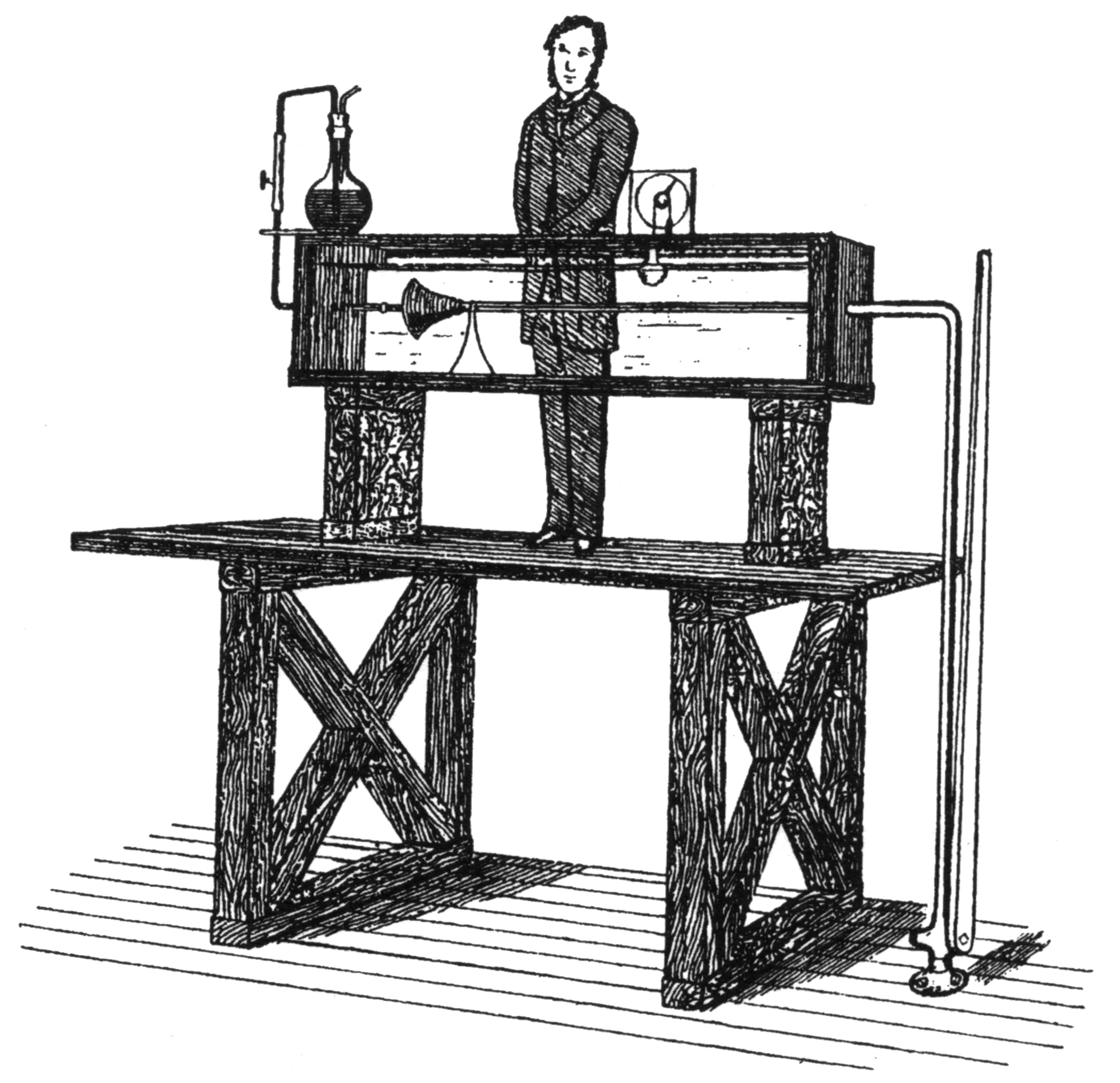 Illustration taken from fluid dynamicist Osborne Reynolds’ 1883 influential paper on "An experimental investigation of the circumstances which determine whether the motion of water in parallel channels shall be direct or sinuous and of the law of resistance in parallel channels". Water flows from the tank near the experimenter down to below the ground, through a transparent tube; and dye is injected in the middle of the flow. The turbulent or laminar nature of the flow can therefore be observed precisely.